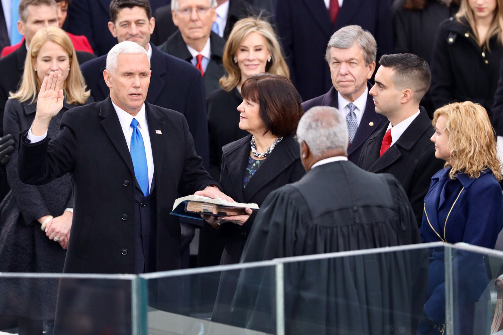 Vice President Mike Pence being sworn in on January 20, 2017 at the U.S. Capitol building in Washington, D.C.